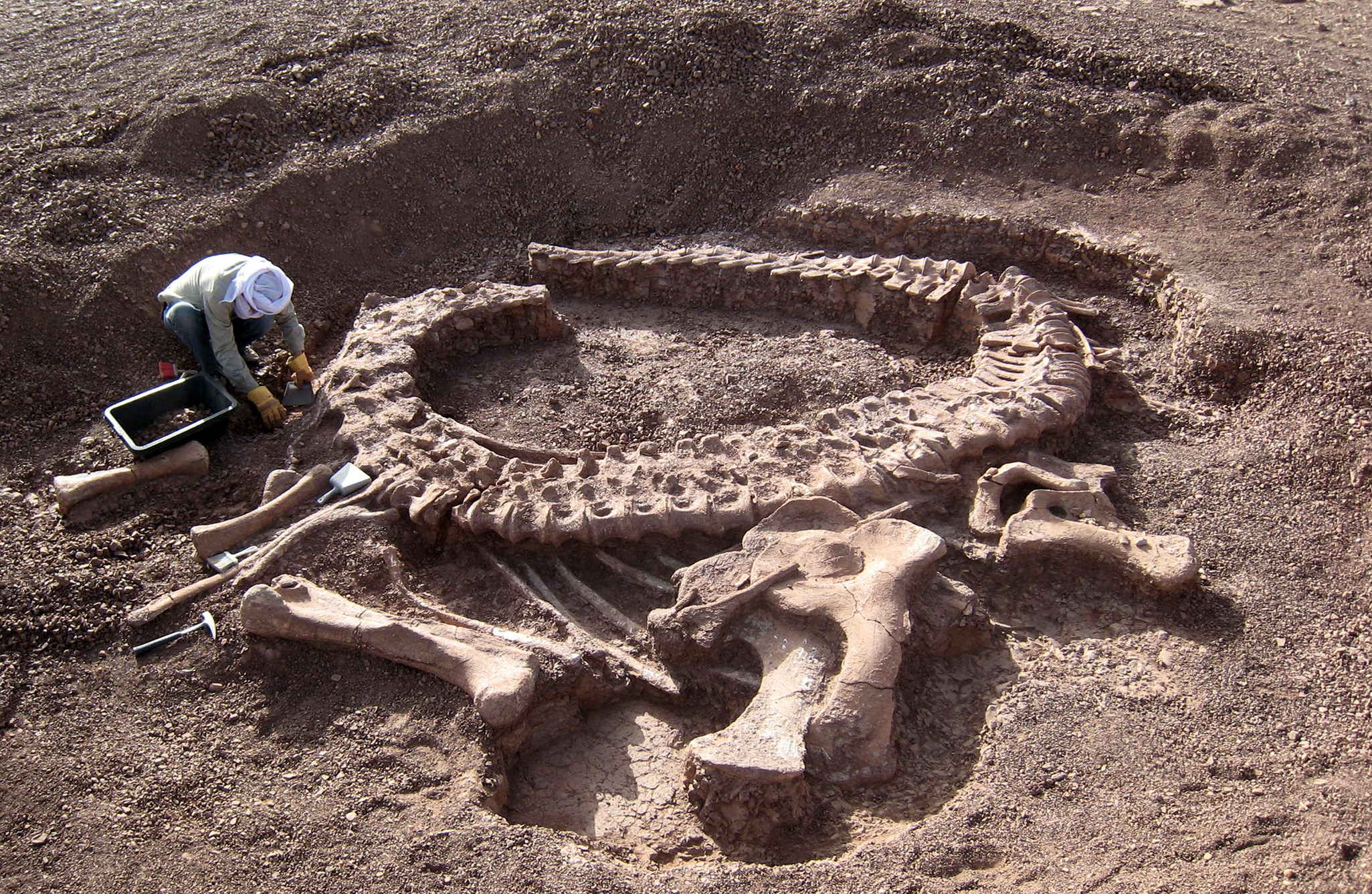 Spinophorosaurus nigerensis, holotype skeleton GCP-CV-4229 in situ during excavation in the region of Aderbissinat, Thirozerine Dept., Agadez Region, Republic of Niger.